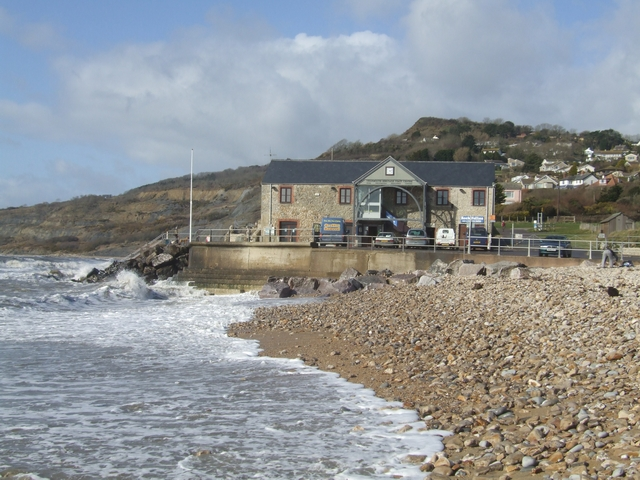 Charmouth Heritage Coast Centre The tide is in next to the new visitor centre at the 'Jurassic Coast' World Heritage Site.